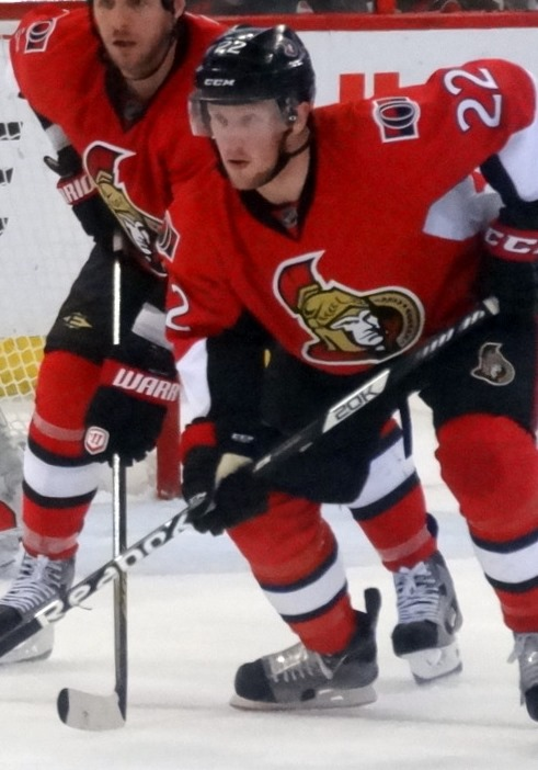 Ottawa Senators forward Erik Condra during game three of their second round series against the Pittsburgh Penguins, May 19, 2013 at Scotiabank Place in Ottawa, Canada.